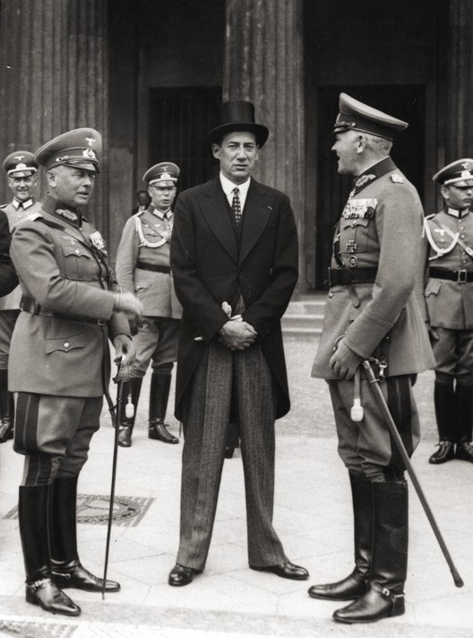 Werner von Fritsch, Józef Beck and Werner von Blomberg during Beck visit in Berlin 07.1935